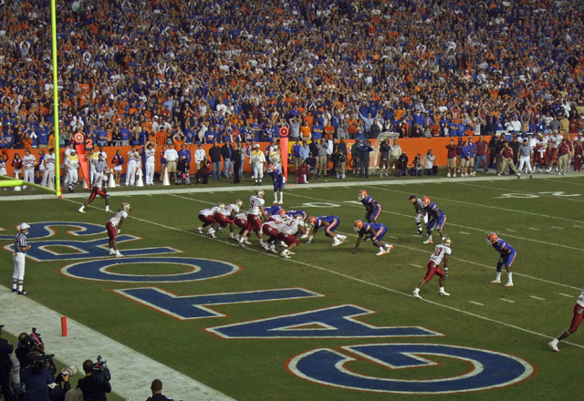 The Florida State Seminoles go on offense deep in their own territory against the Florida Gators, Nov. 24th, 2007.